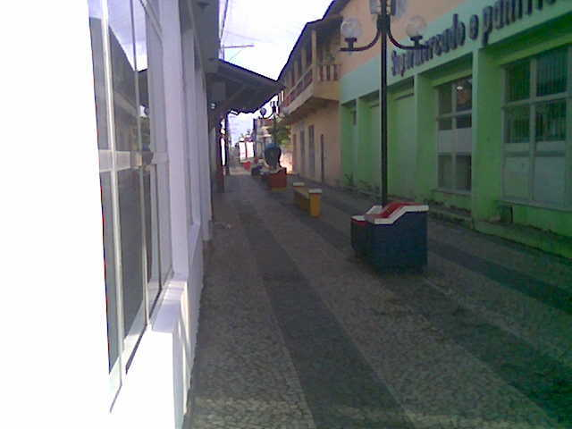 Calçadão of Alcobaça, Bahia